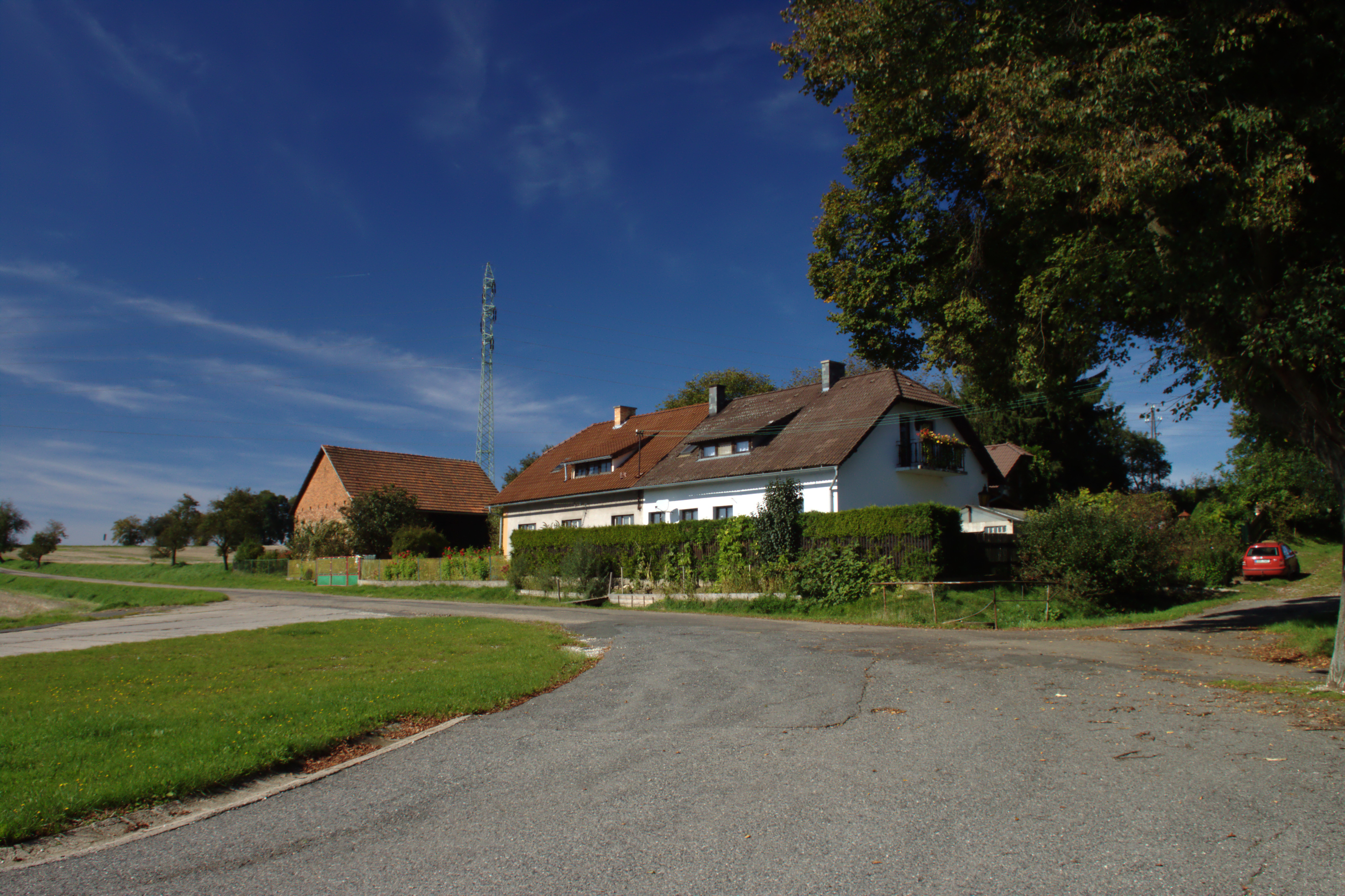 An agricultural object near Vestec/Zbizuby, Central Bohemia, CZ